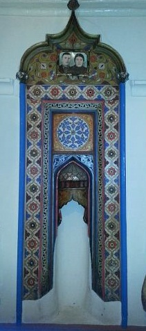 Fireplace